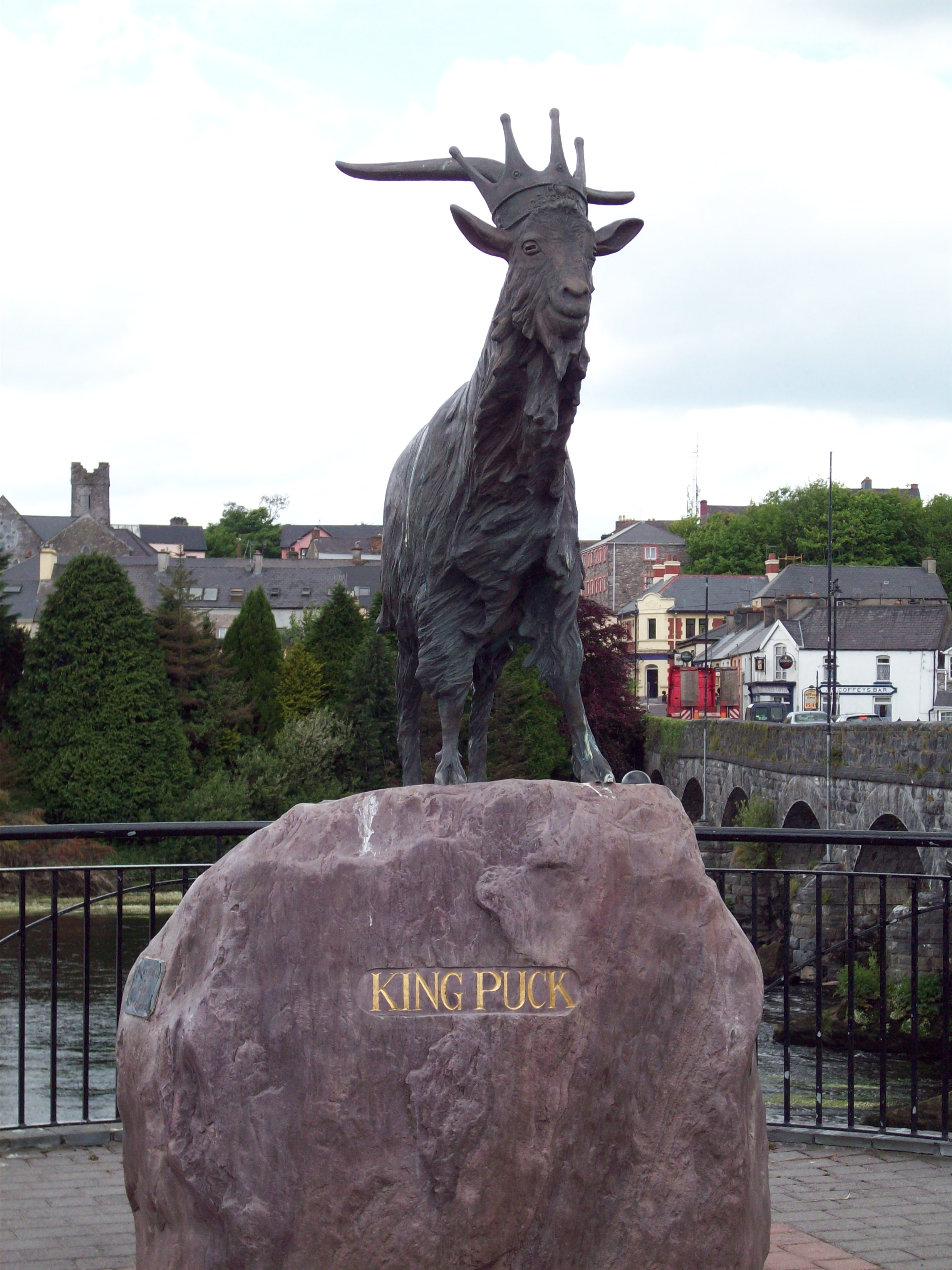 King Puck statue in Killorglin, County Kerry, Republic of Ireland